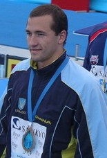 Victory lap of the 100 m butterfly during the 2005 FINA World Championships in Montréal. The swimmers are Andriy Serdinov (bronze medallist, left side), Ian Crocker (gold) and Michael Phelps (silver).